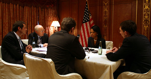 US State Department Secretary Condoleezza Rice gives an interview to the biggest German political weekly Der Spiegel prior to departure from Berlin. Interview with Stefan Aust, Dr. Gerhard Sporl, Georg Mascolo, and Ralf Beste of Der Spiegel.